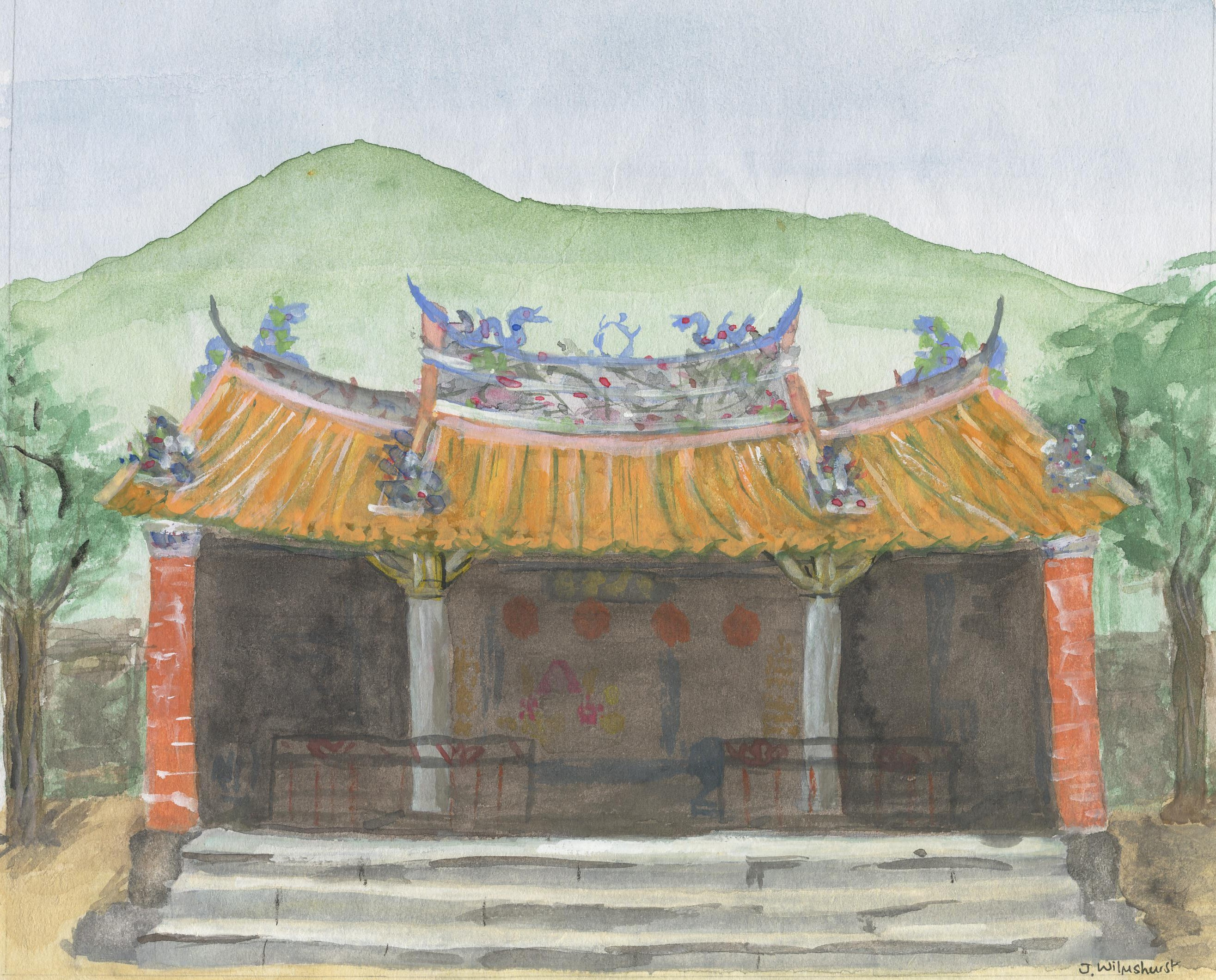 The Fu-you kung Matsu temple, Tamsui